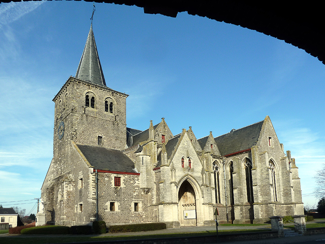 Saint Genoveva church Oplinter